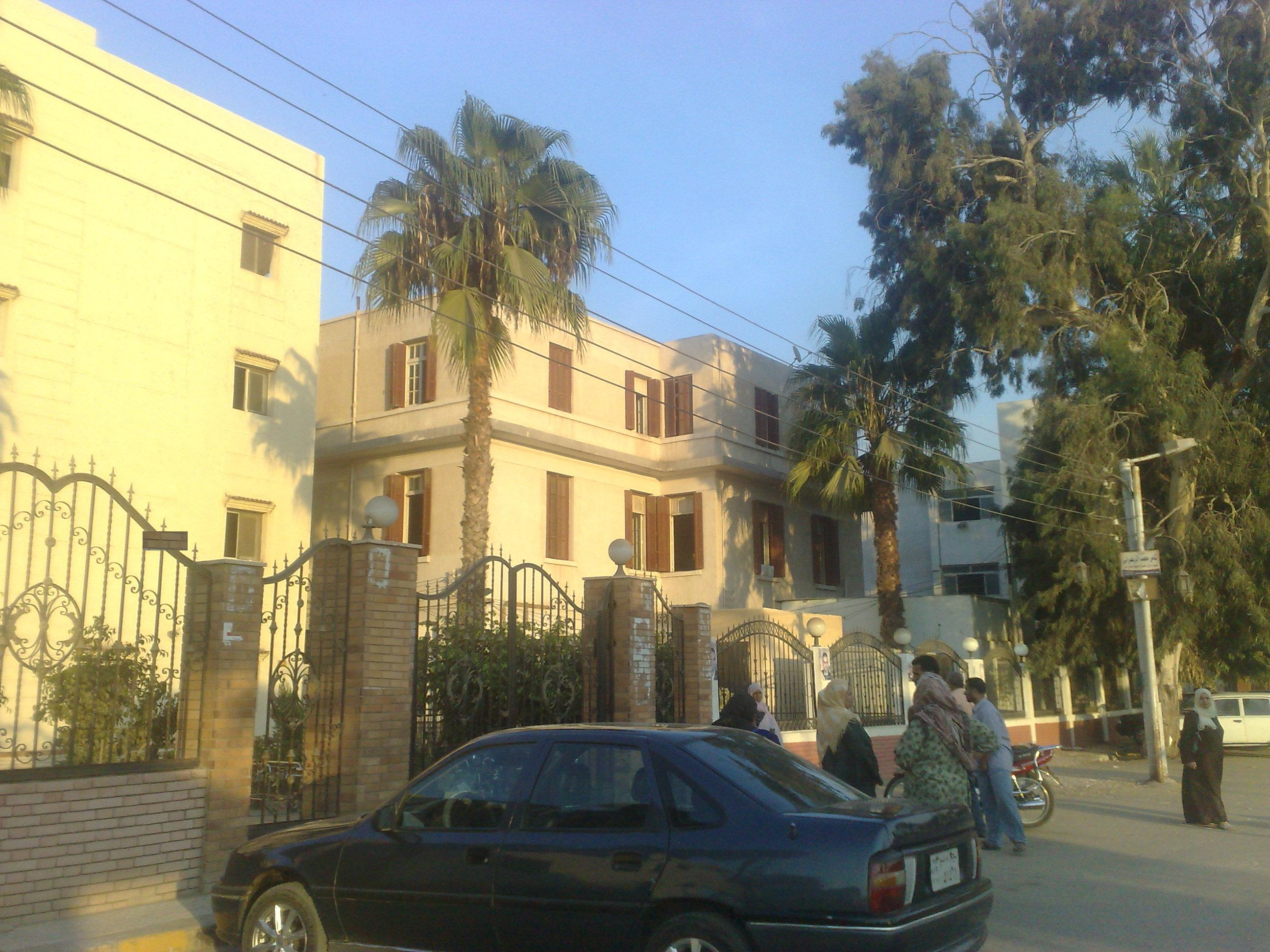 General Hospital of Desouk